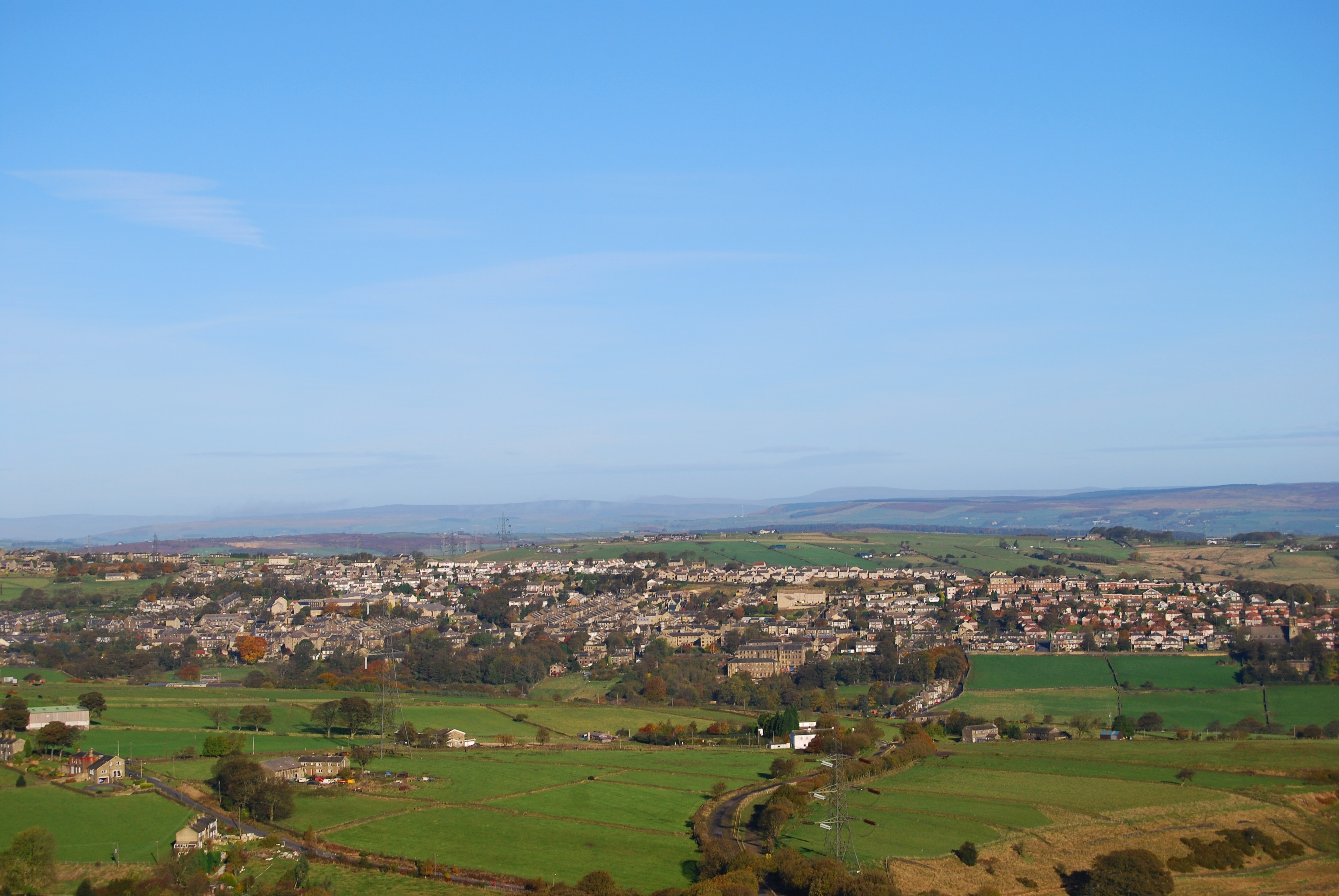 Thornton, from Queensbury